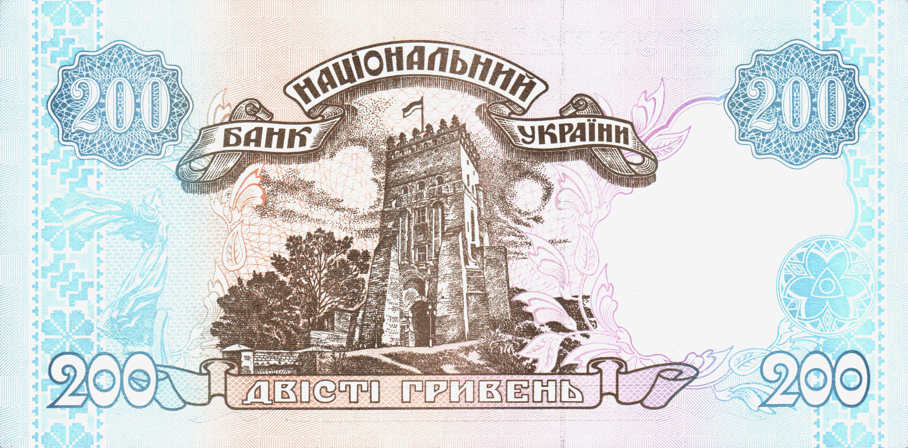 200 Hryvnia banknote (Ukraine), 2001, b